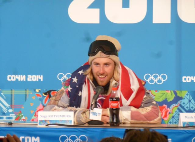 U.S. snowboarder Sage Kotsenburg addressing a news conference after winning the first gold medal at the Sochi Olympics, Feb. 8, 2014 (P. Brewer/VOA).